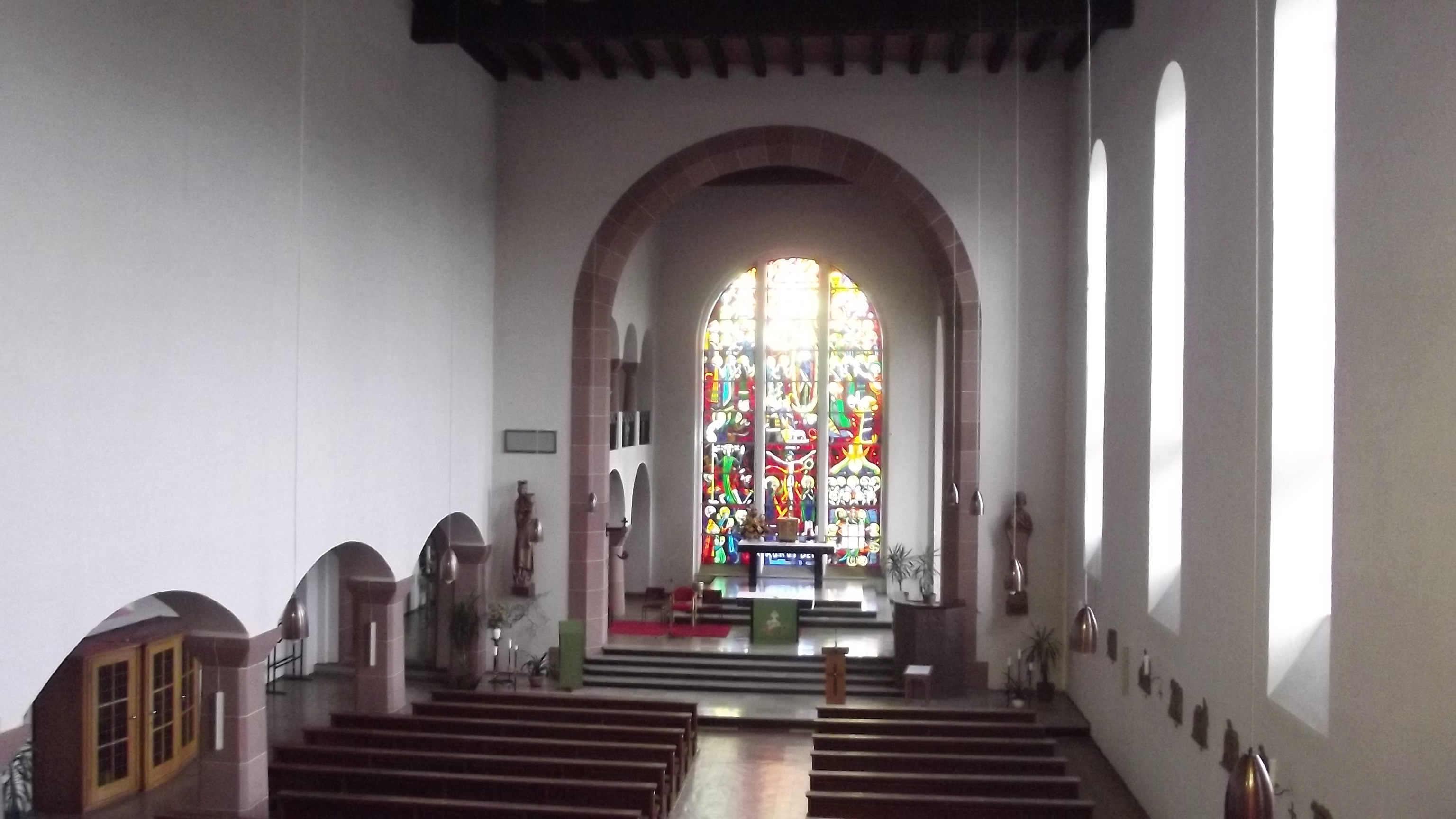 Interior of the roman catholic church in Baltersweiler, Saarland